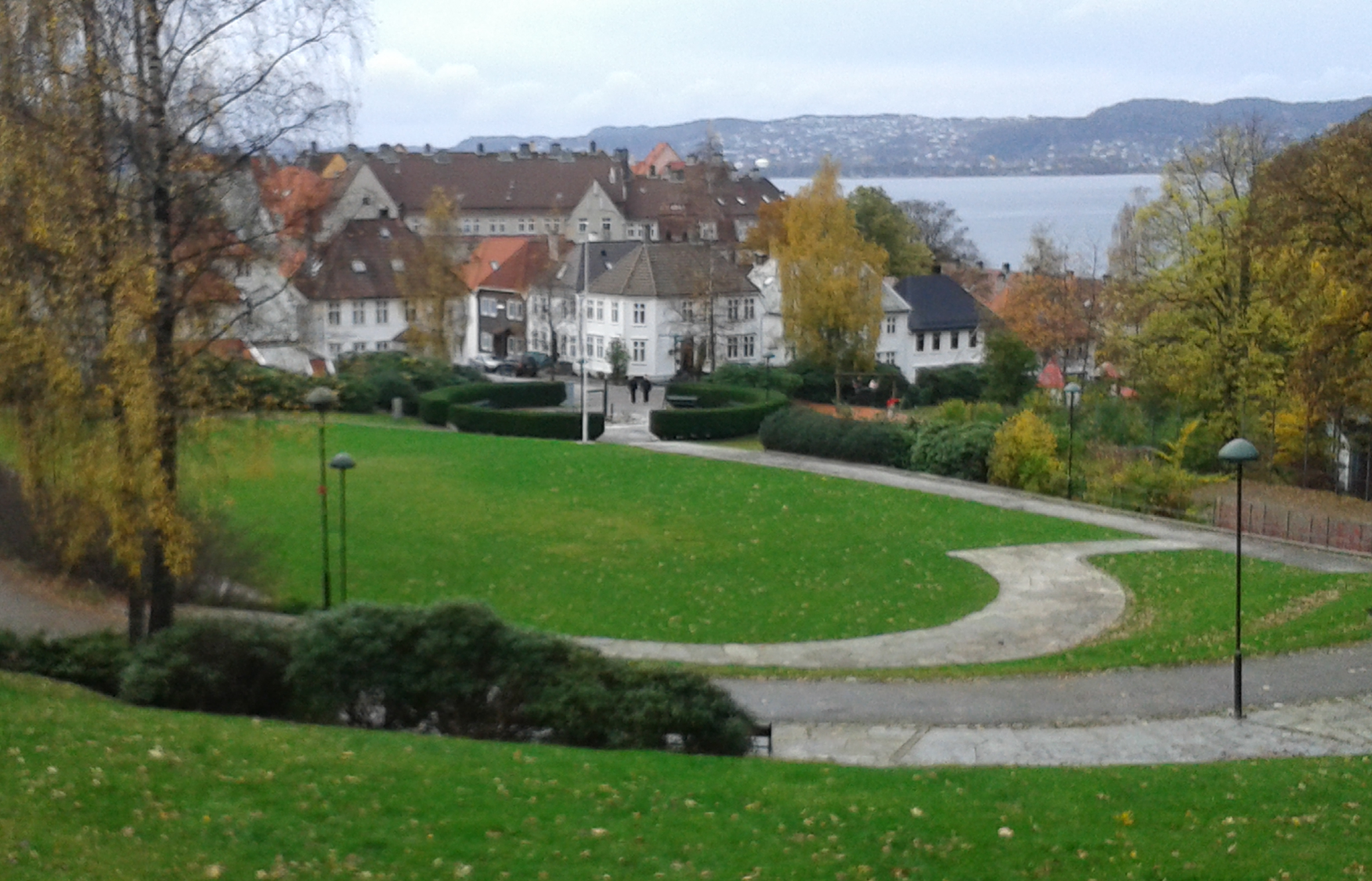 Meyermarken, a public park in Bergen, Norway